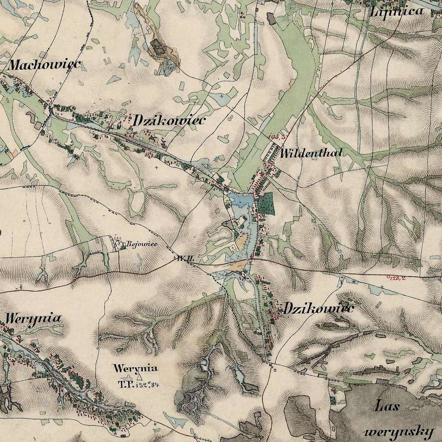 Dzikowiec and Wildenthal on an austrian map from around 1855